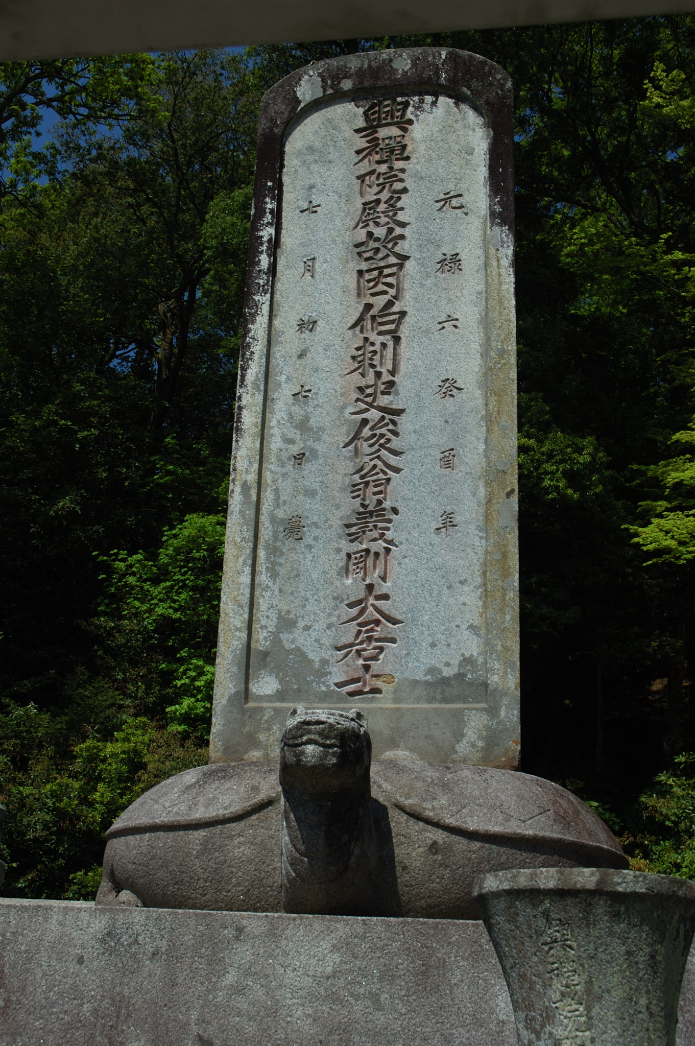 gravestone of Ikeda Mitsunaka(the first feudal lord)